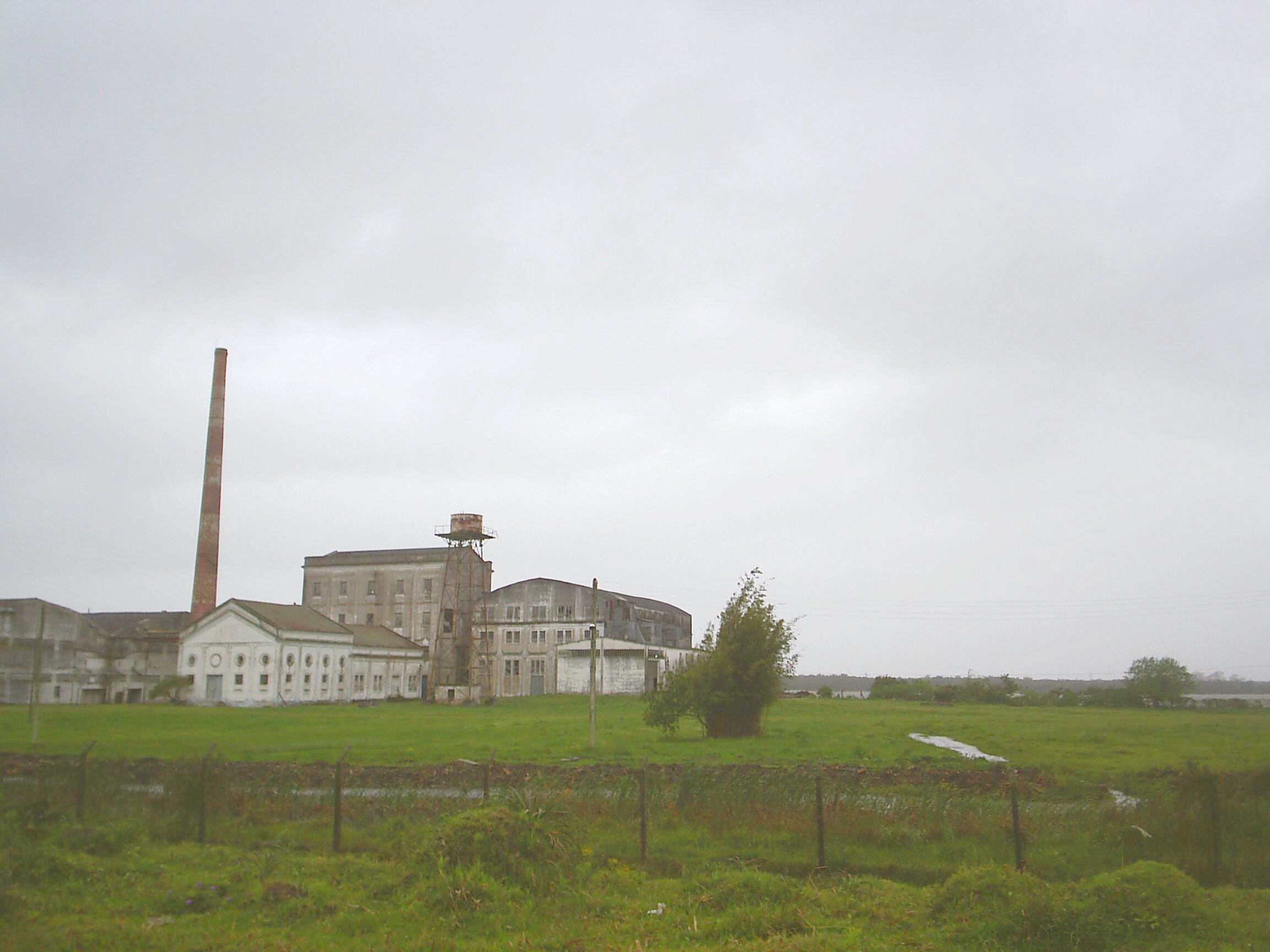 A derelict rice factory located in Pelotas, Rio Grande do Sul state, Brazil